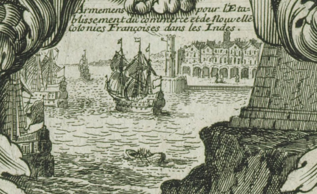 French vessels leaving for the Indies to trade and found colonies. Detail of an engraving of 1699 on a royal almanac.